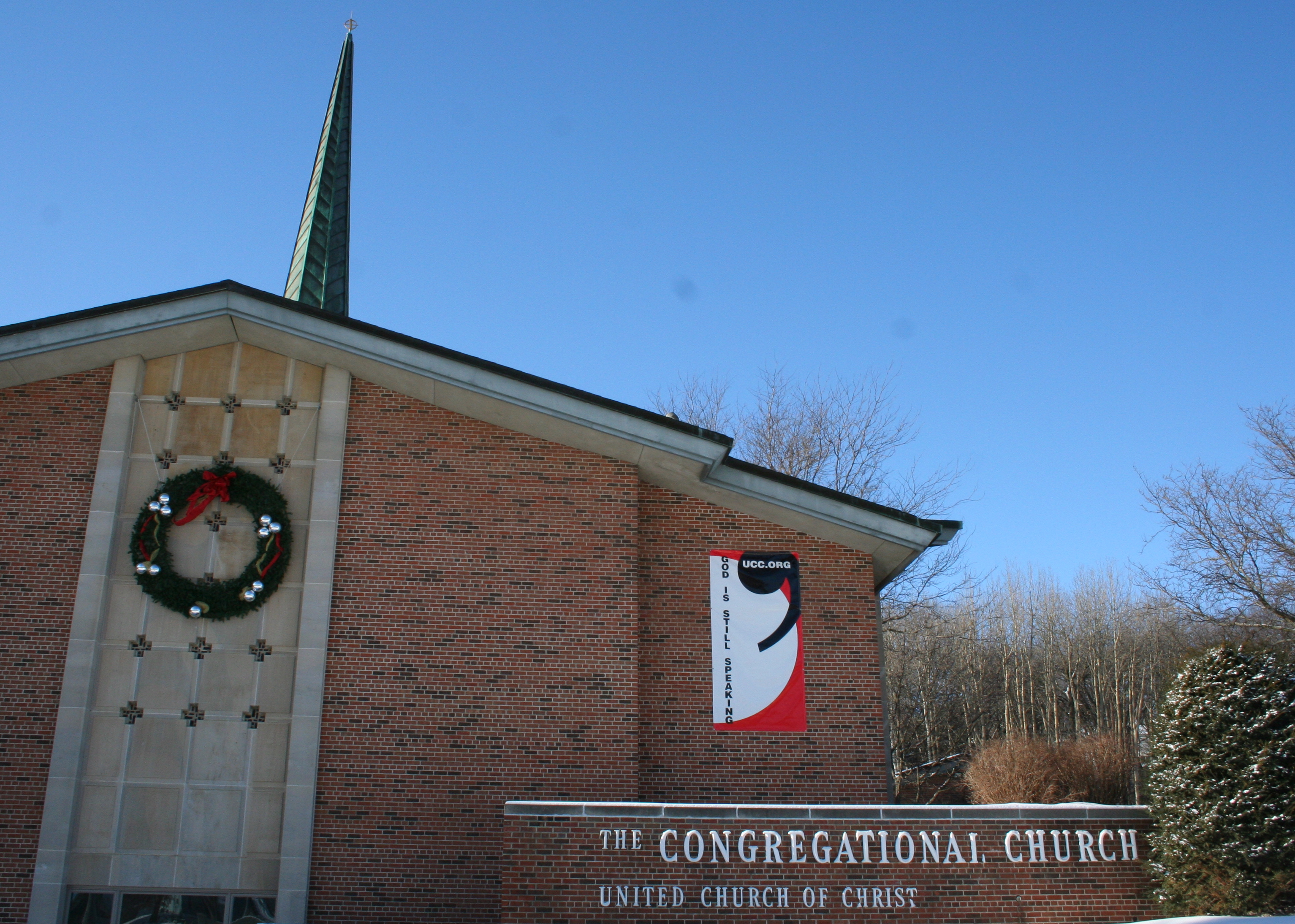 The Congregational Church (United Church of Christ) in Rochester, Minnesota. Hanging on the building are a Christmas wreath and a banner with the words "God is still speaking".